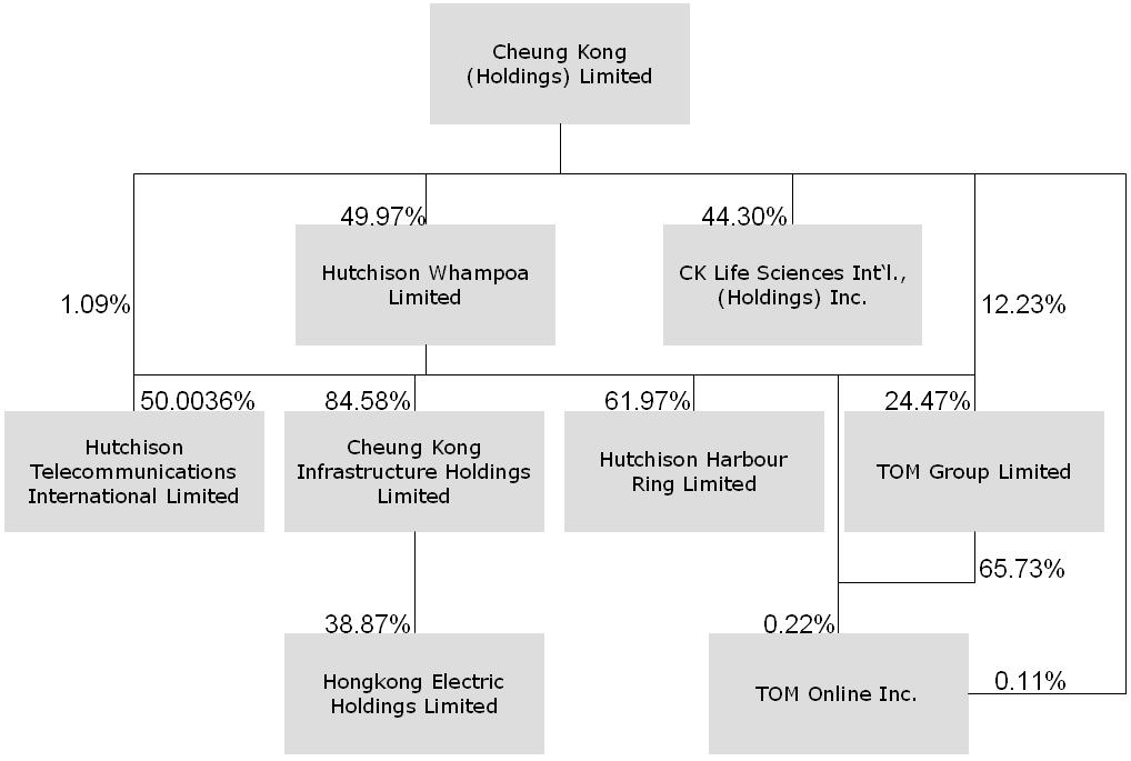 Structure of Cheung Kong Group